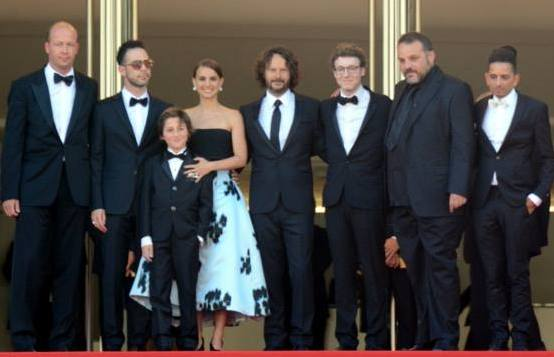 Director and stars of "A Tale of Love and Darkness" at the Cannes film festival